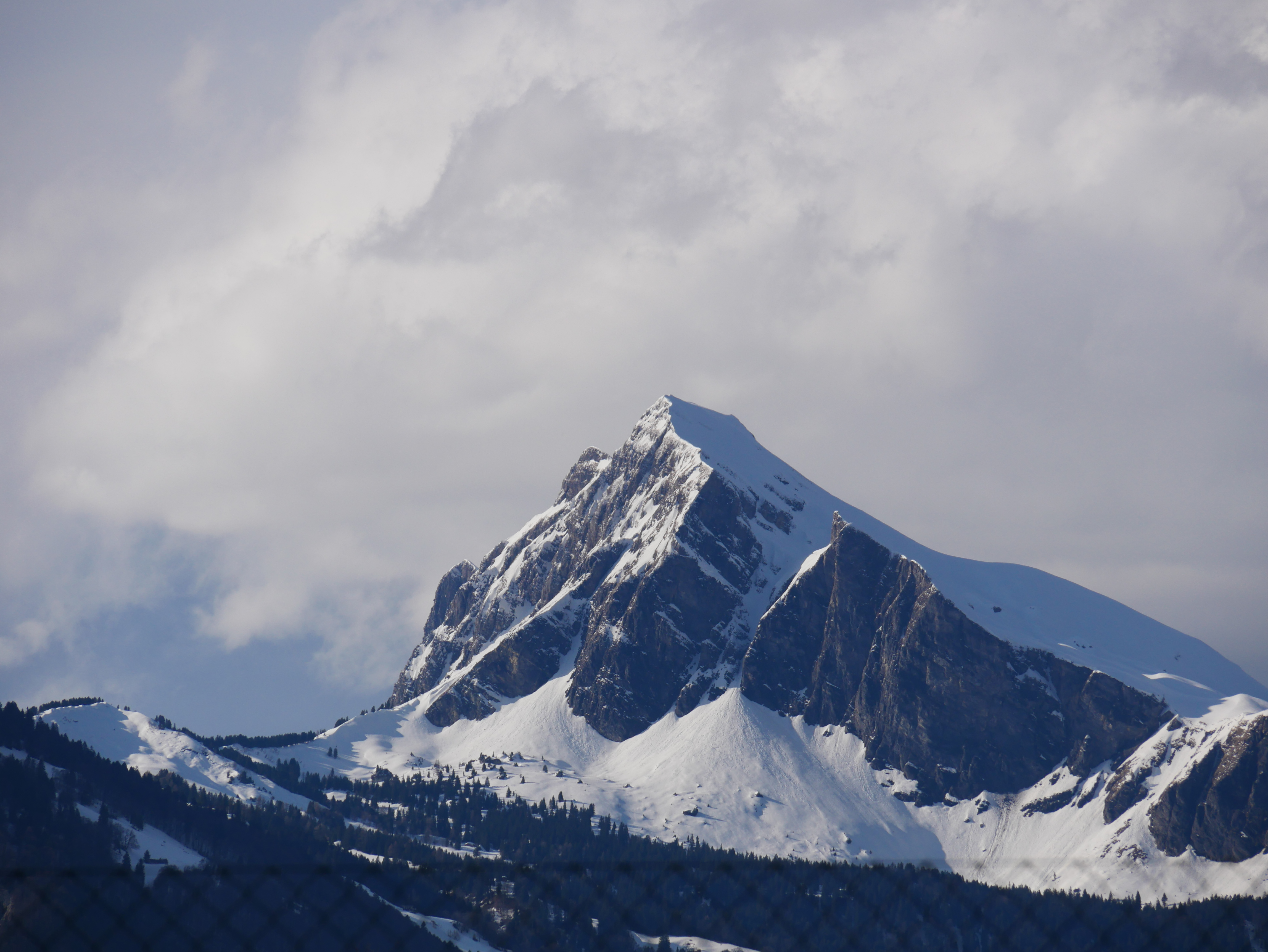 The Gauschla Mountain, part of the Alvier Group, Appenzell Alps seen from the Giessen Park in Bad Ragaz.